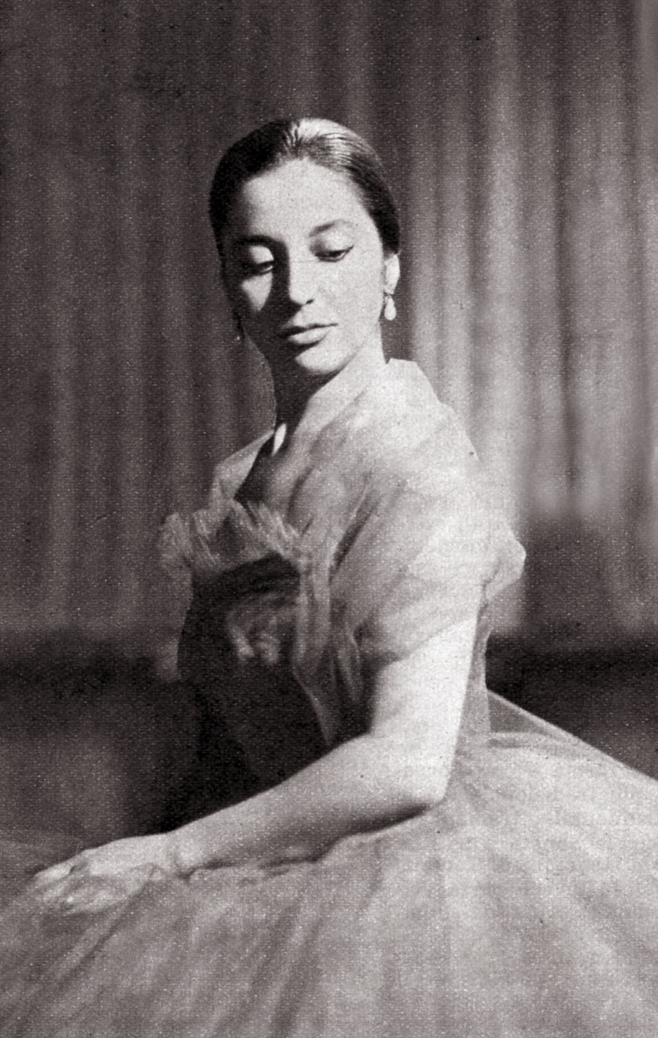 photo from the magazine Radiocorriere (1958)